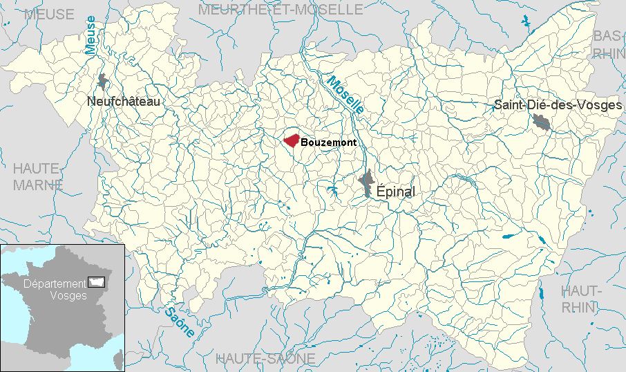 Bouzemont in the department of Vosges, Lorraine, France